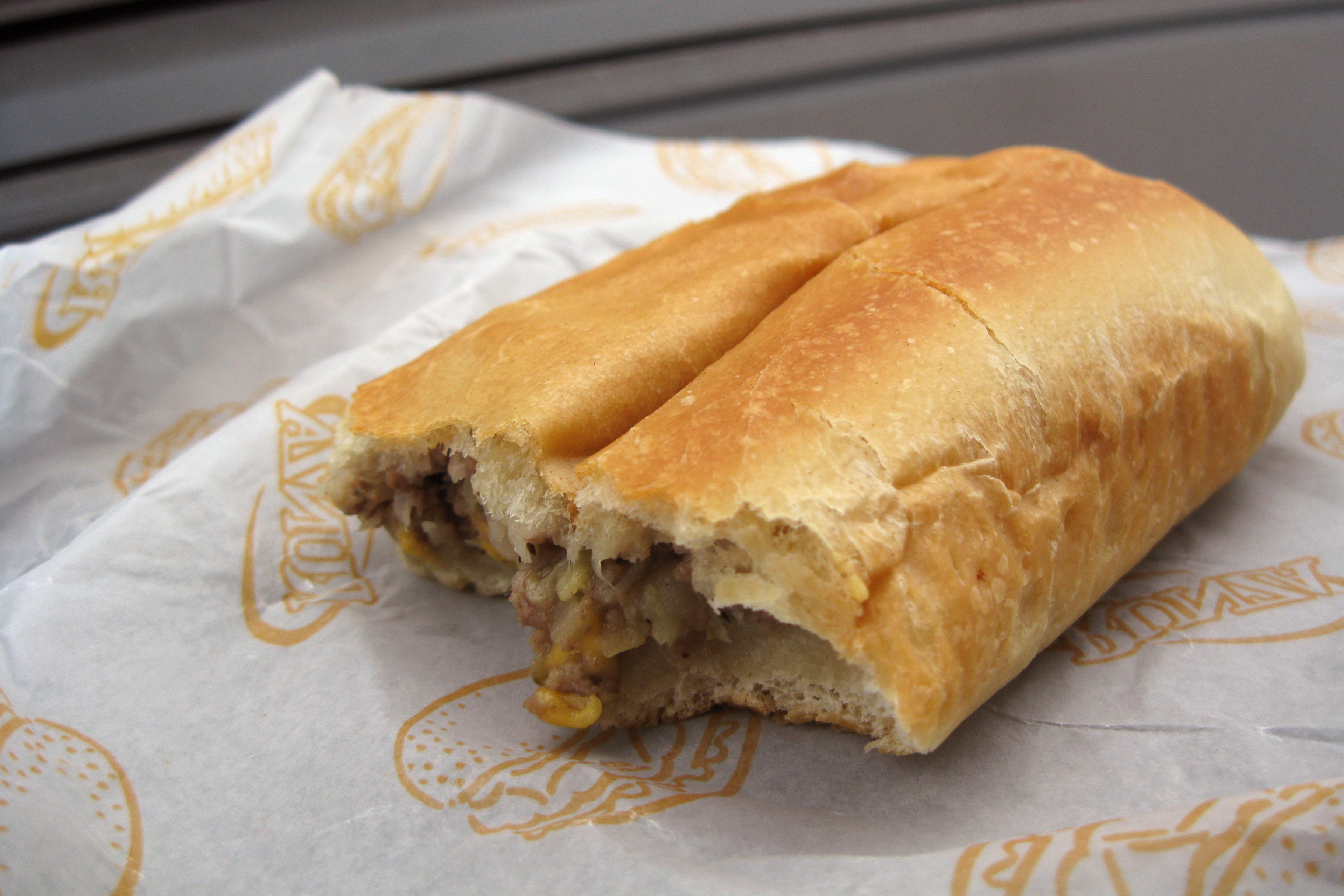 Runza sandwich